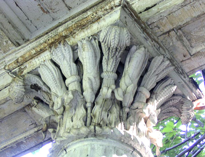 Corn capital, atop a column — at the Litchfield Villa. Designed by architect A.J. Davis, and located in Prospect Park, Brooklyn, NYC.